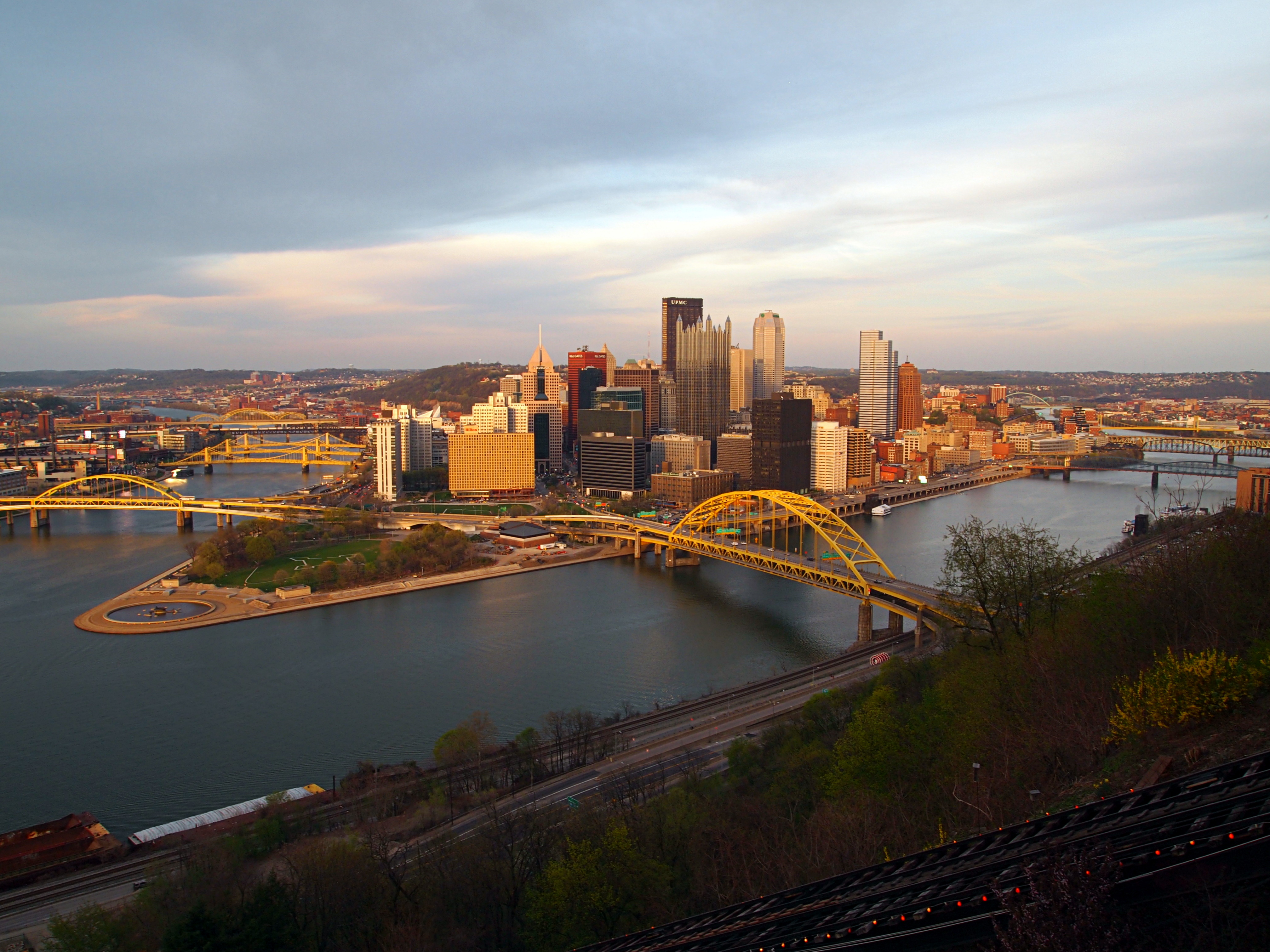 Downtown Pittsburgh skyline from Mt. Washington at the Duquesne Incline overlook platform. The tracks of the Duquesne Incline are in the foreground.